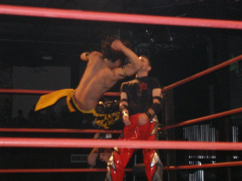 Professional wrestler KUDO performing his signature move, 8x4, on Mike Quackenbush.